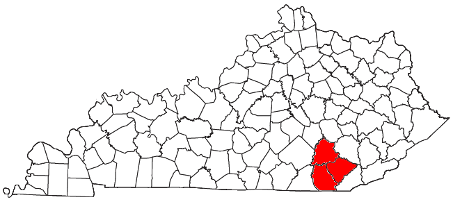 Locator map of the London micropolitan area in the southeastern part of the U.S. state of Kentucky.